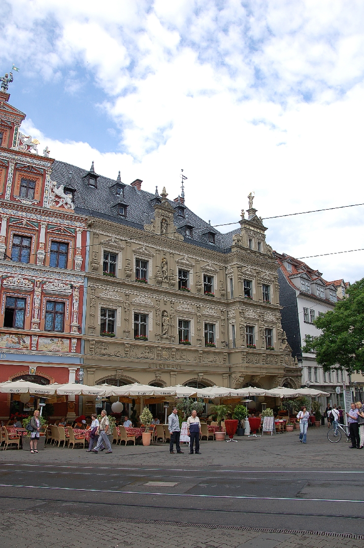 Erfurt, Gildehaus at Fischmarkt